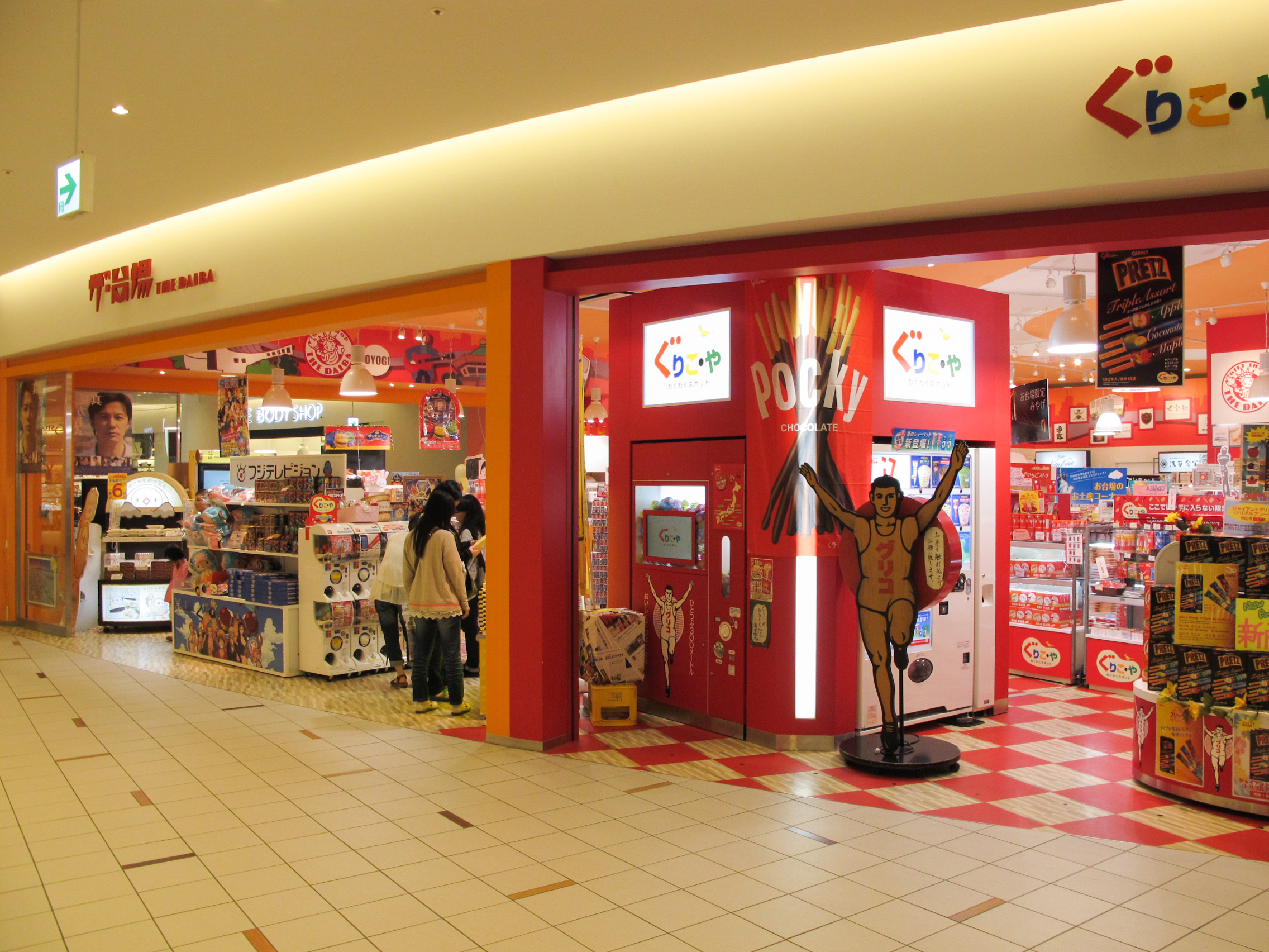 Glico shop in DiverCity Tokyo Plaza